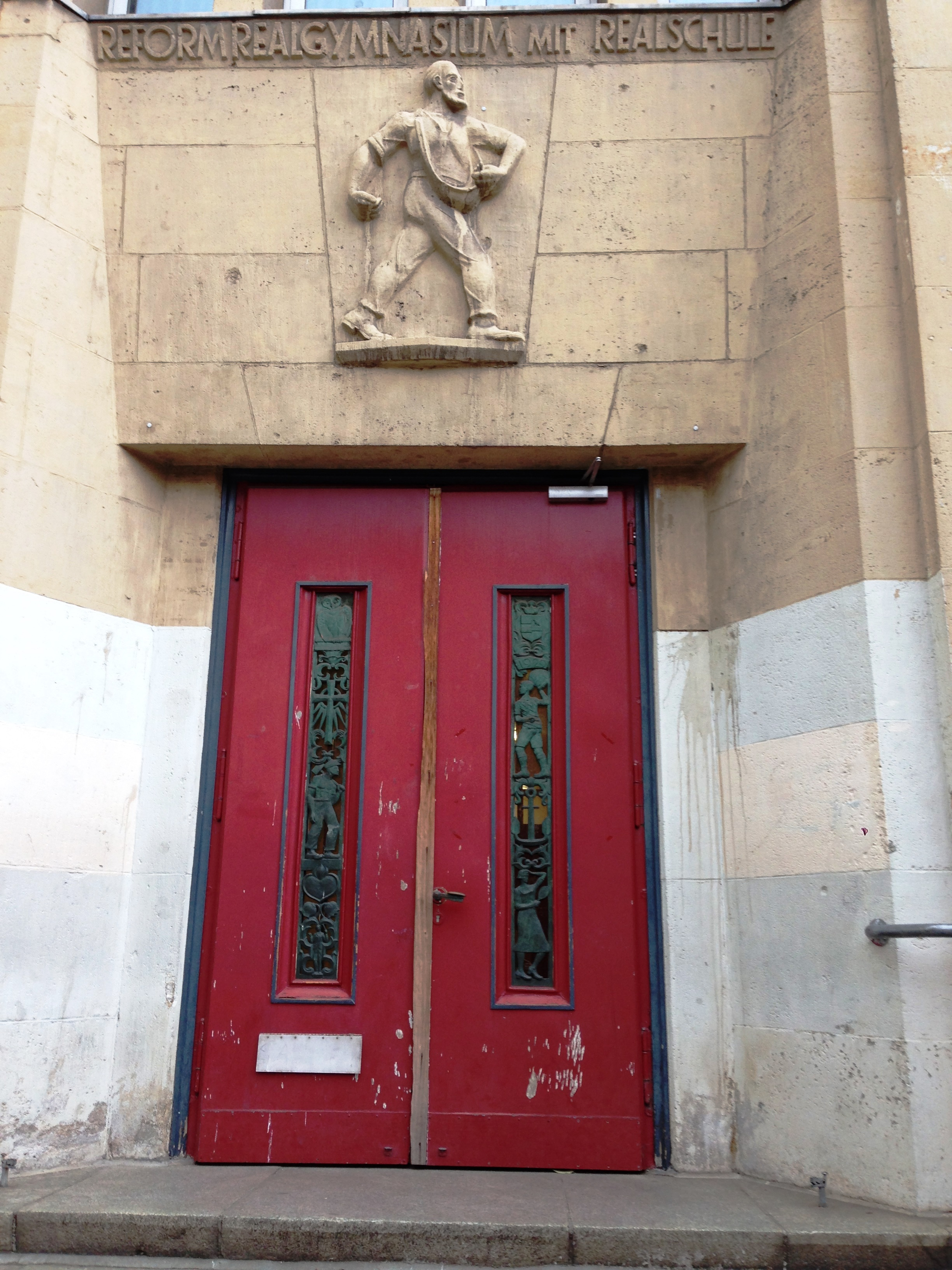 Sower-Entrance of the Freiherr-vom-Stein High School in Oberhausen-Sterkrade (Germany)